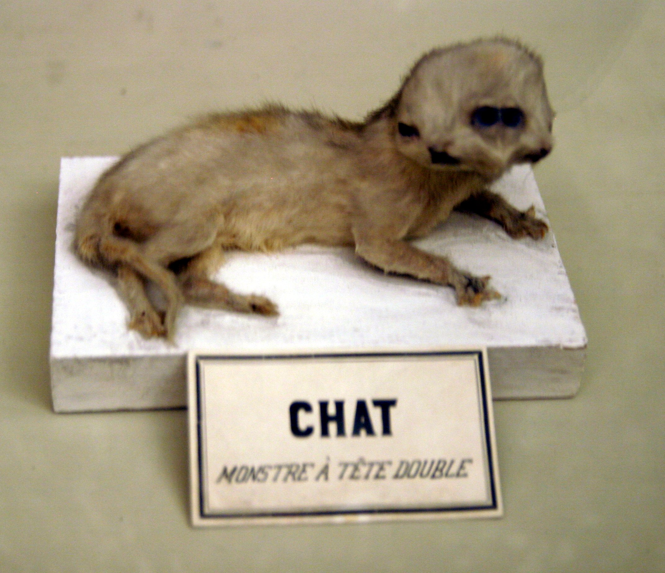 Museum of Lausanne